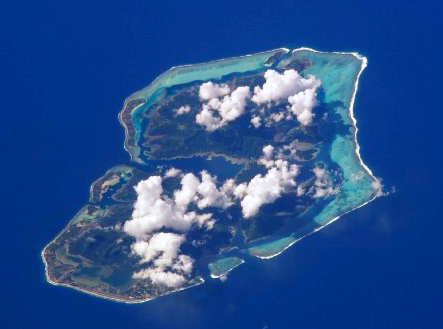 Huahine